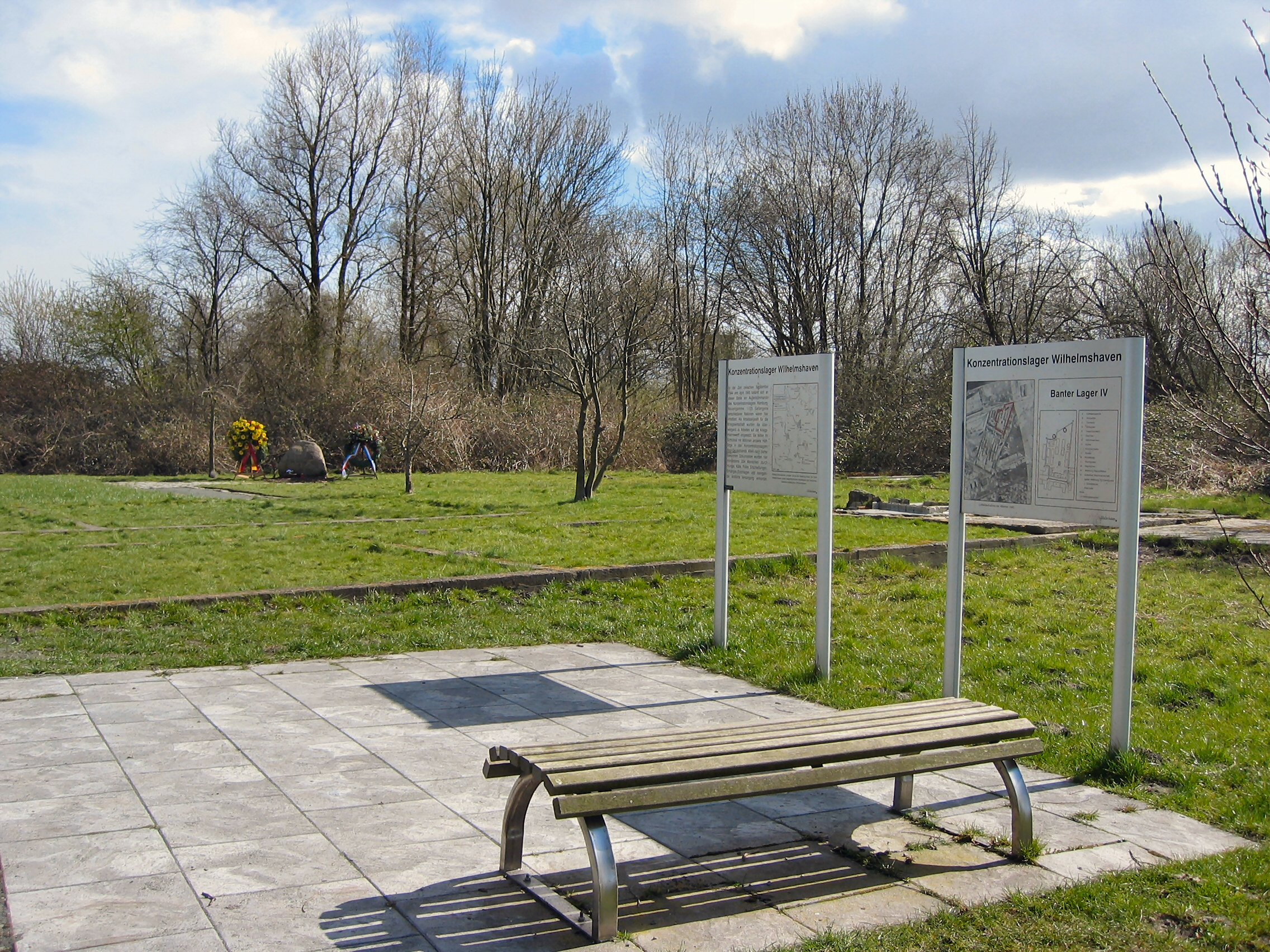 Memorial Concentration Camp Wilhelmshaven - Lager Alter Banter Weg: Information boards